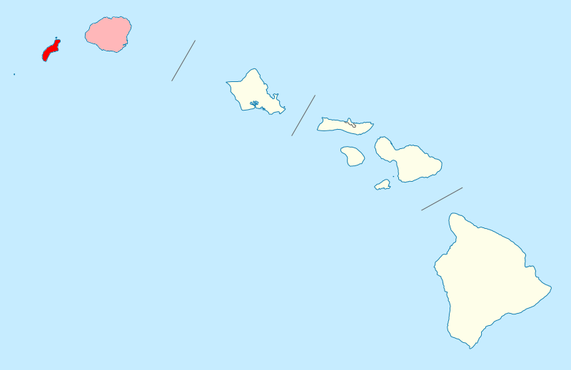 Dark red = Niihau, the native area of this dialect. Light red = Kauai, due to many Niihauans moving to that island.